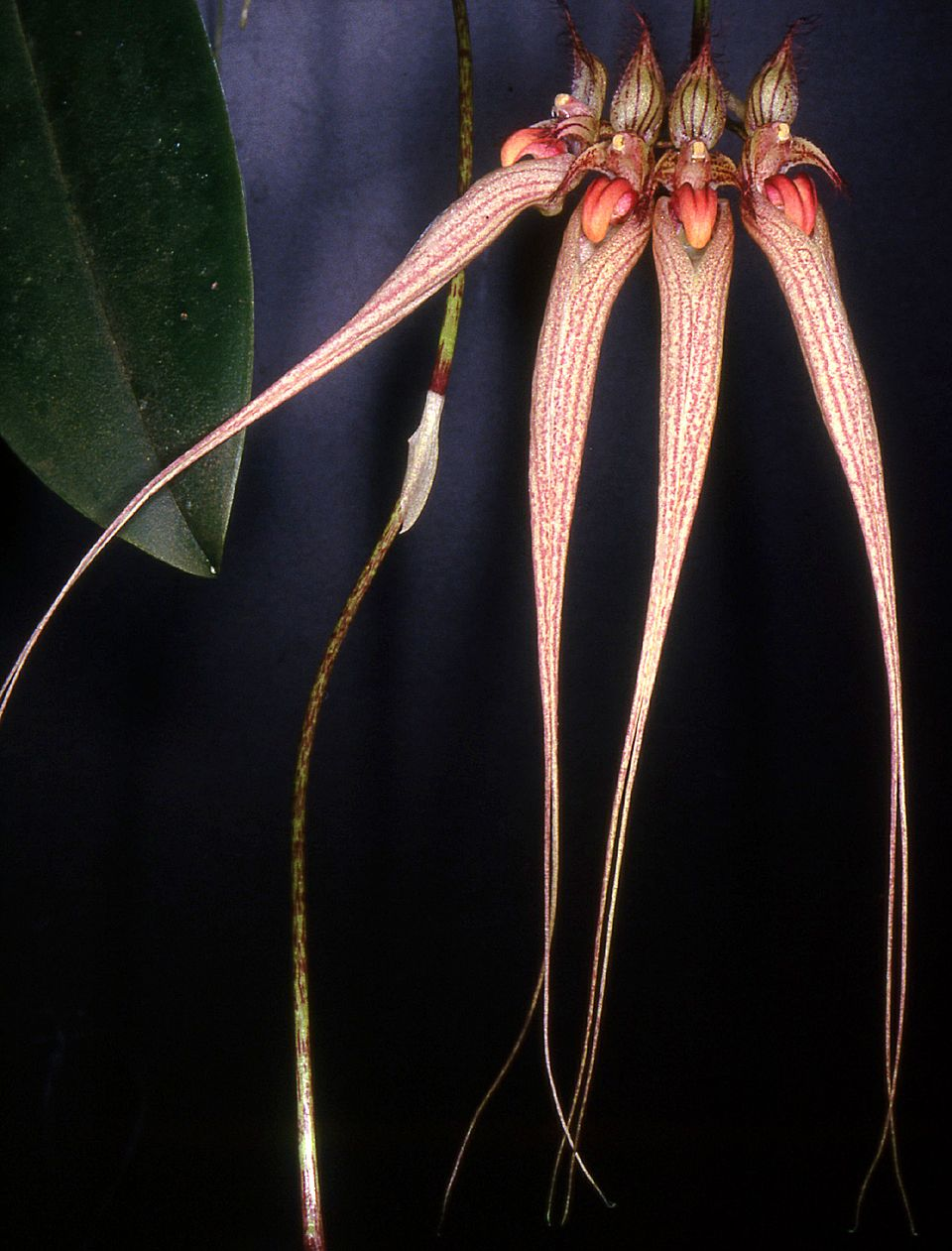 Bulbophyllum ornatissimum